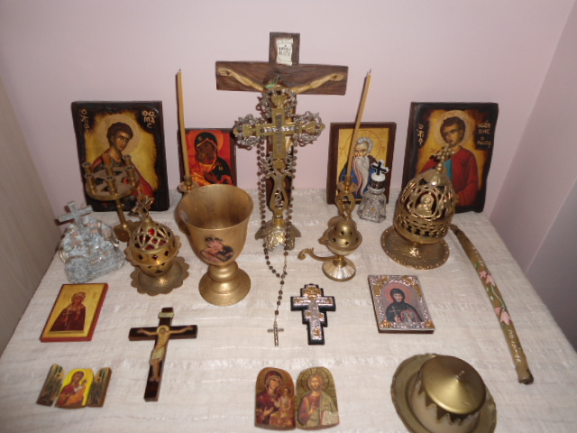 An Eastern Orthodox icon corner and home altar